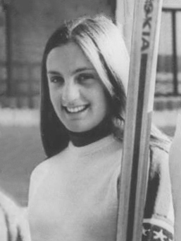 1976 Press Photo Winning US Olympic 1600 Relay Team